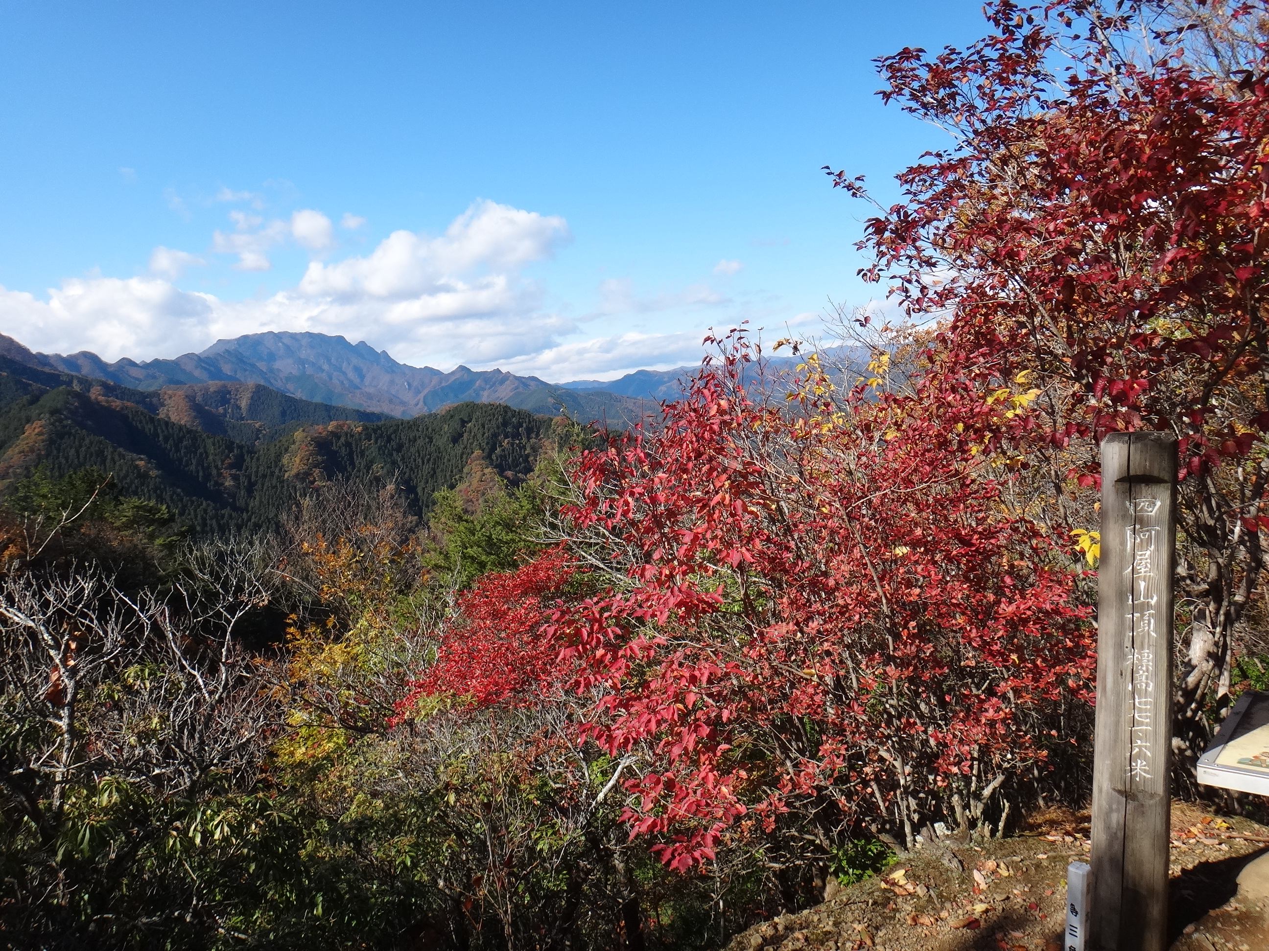 Mount Ryōkami (left) senn from Mount Azumaya.